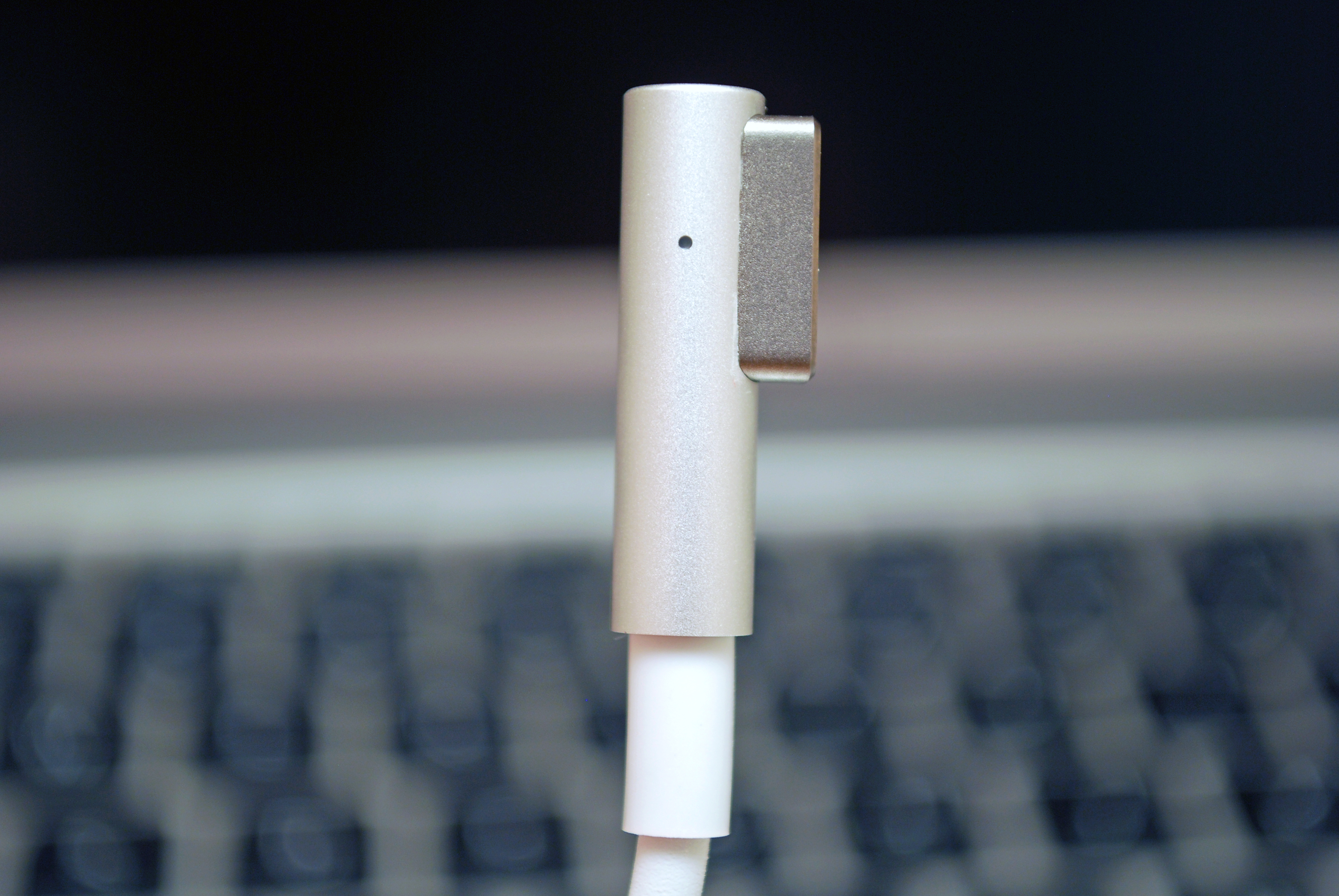 Right angle Wikipedia:Magsafe power connector.